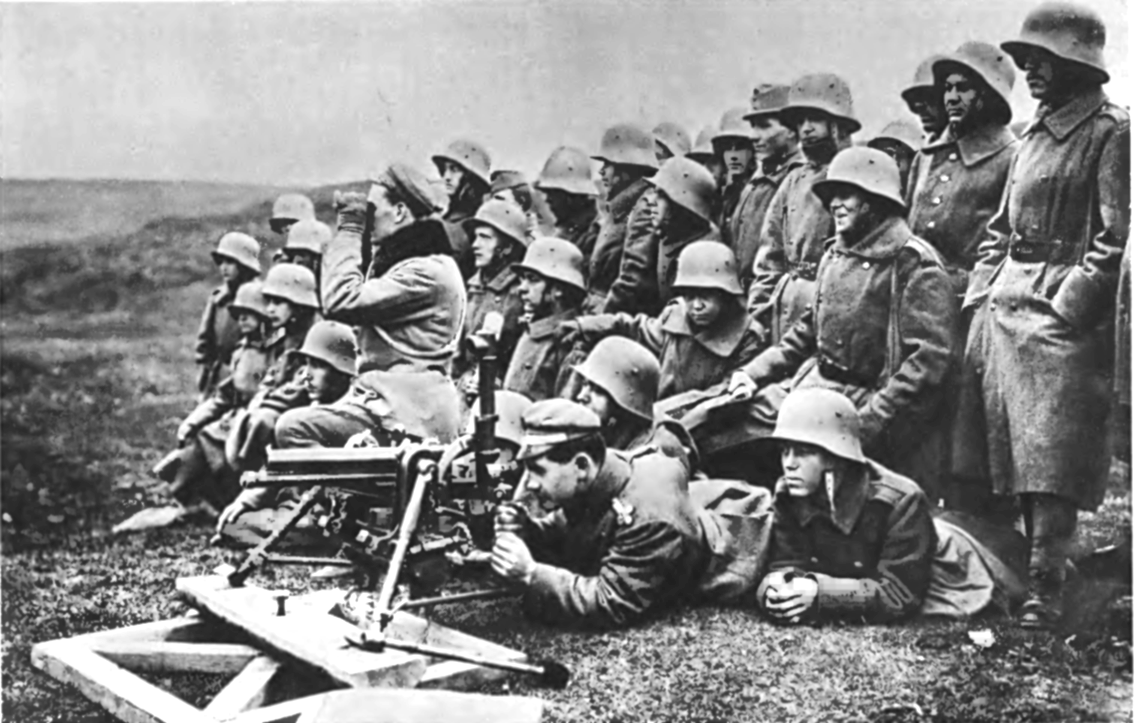 2nd Infantry Regiment of Polish Auxiliary Corps in Bukovina. 1917 or 1918.